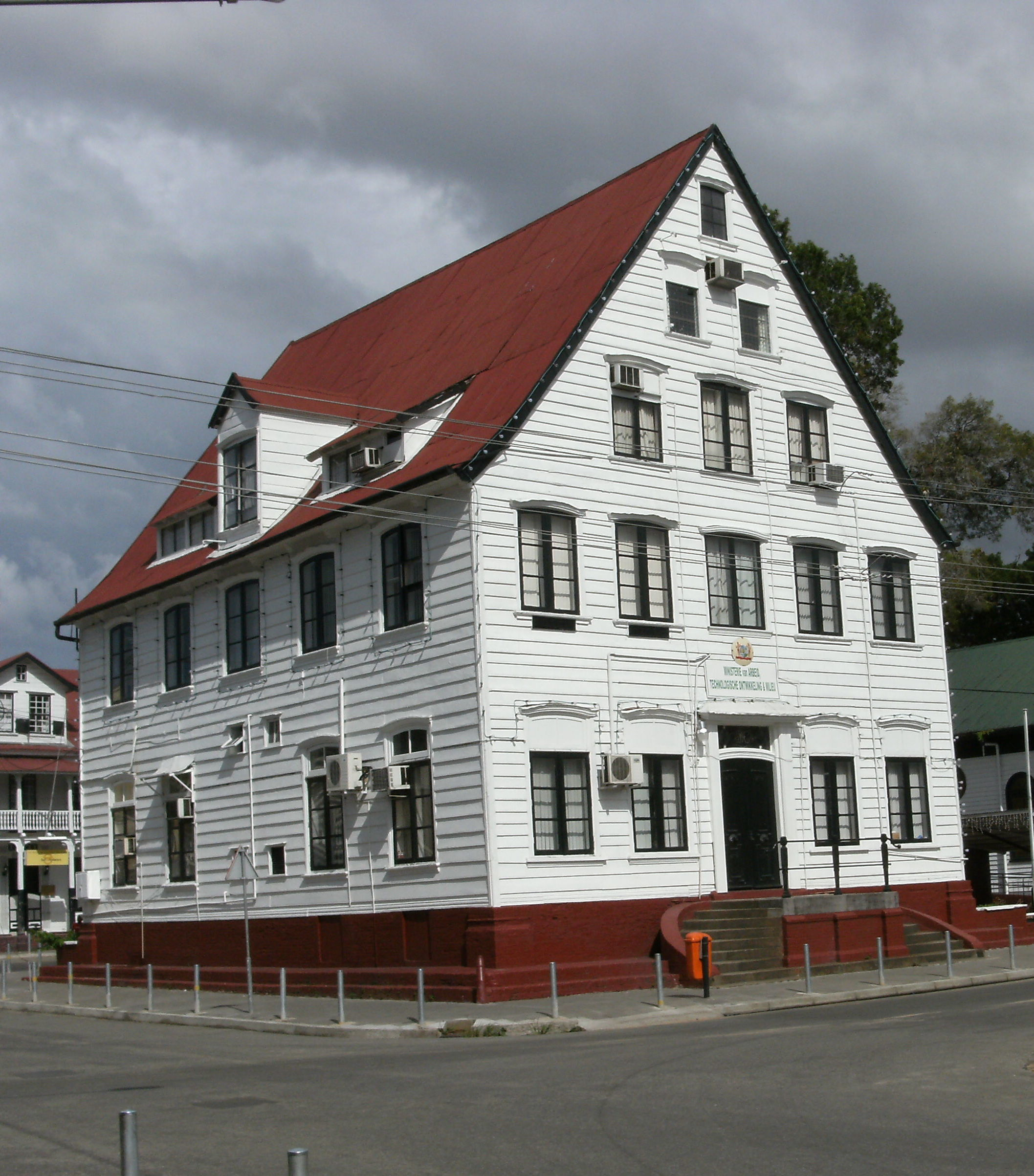 Paramaribo, ministry of Labour, Technological Development and Environment. Surinamese colonials style architecture.